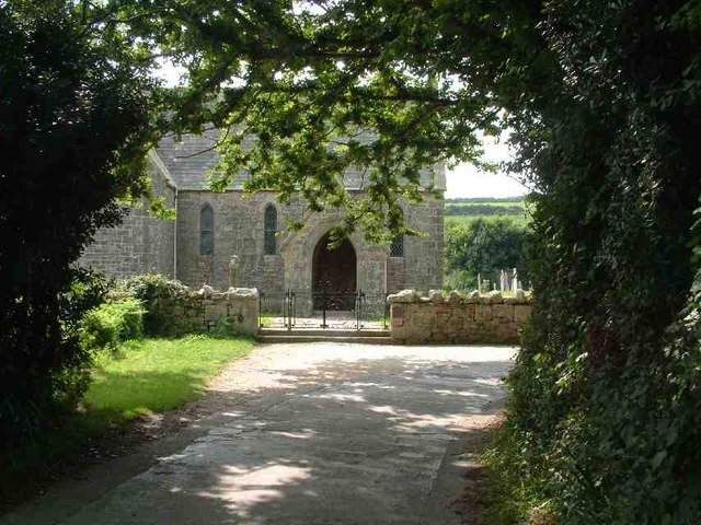 Tresco Church